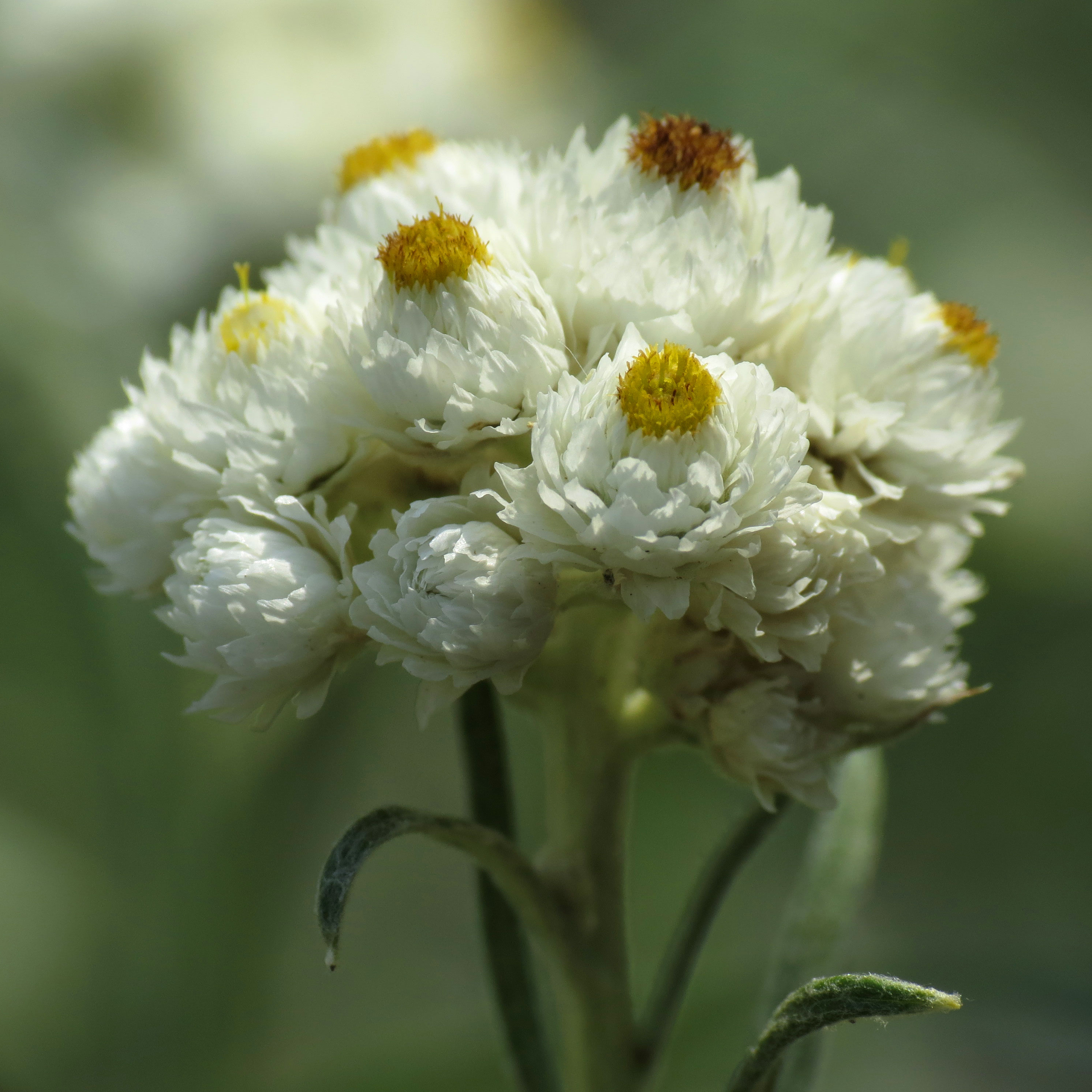 Anaphalis margaritacea. Along the trail to Lily Lake, Sawtooth National Forest near Stanley, Idaho.